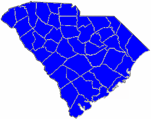 1904/1906 South Carolina gubernatorial election results by county.